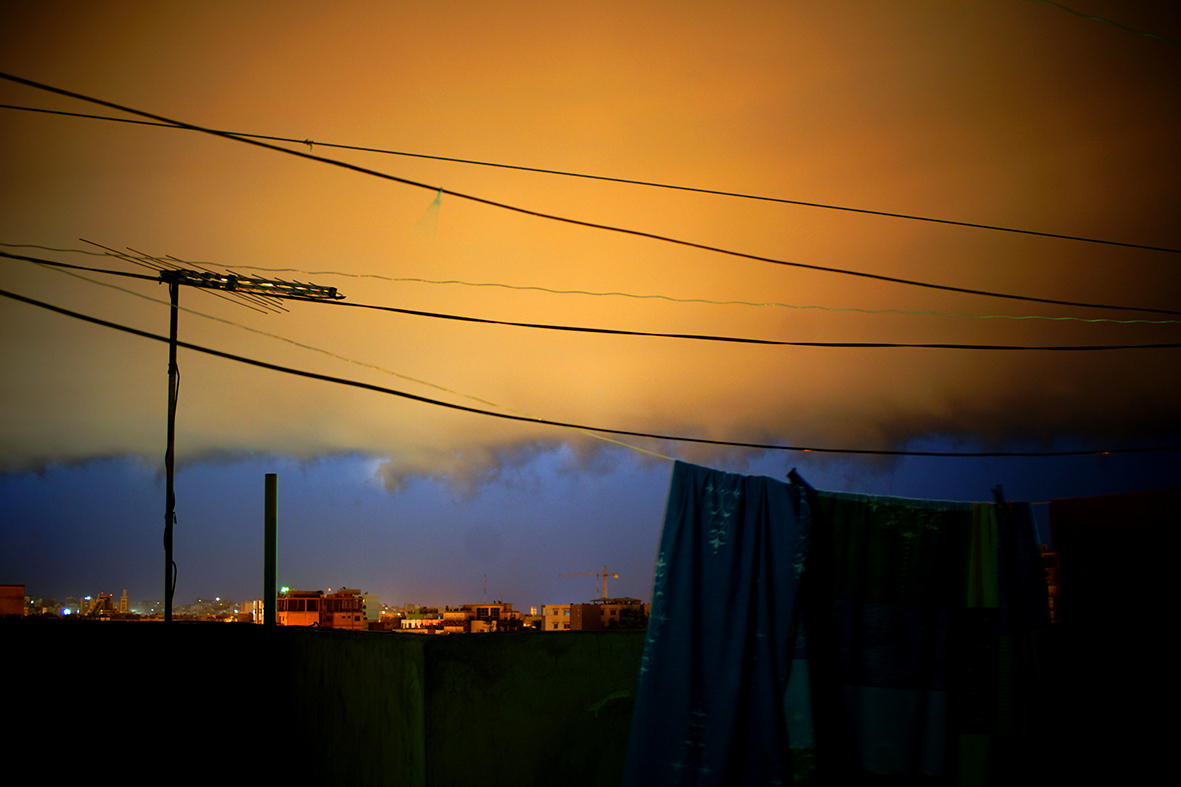 This is an image with the theme "Africa on the Move or Transport" from: Senegal